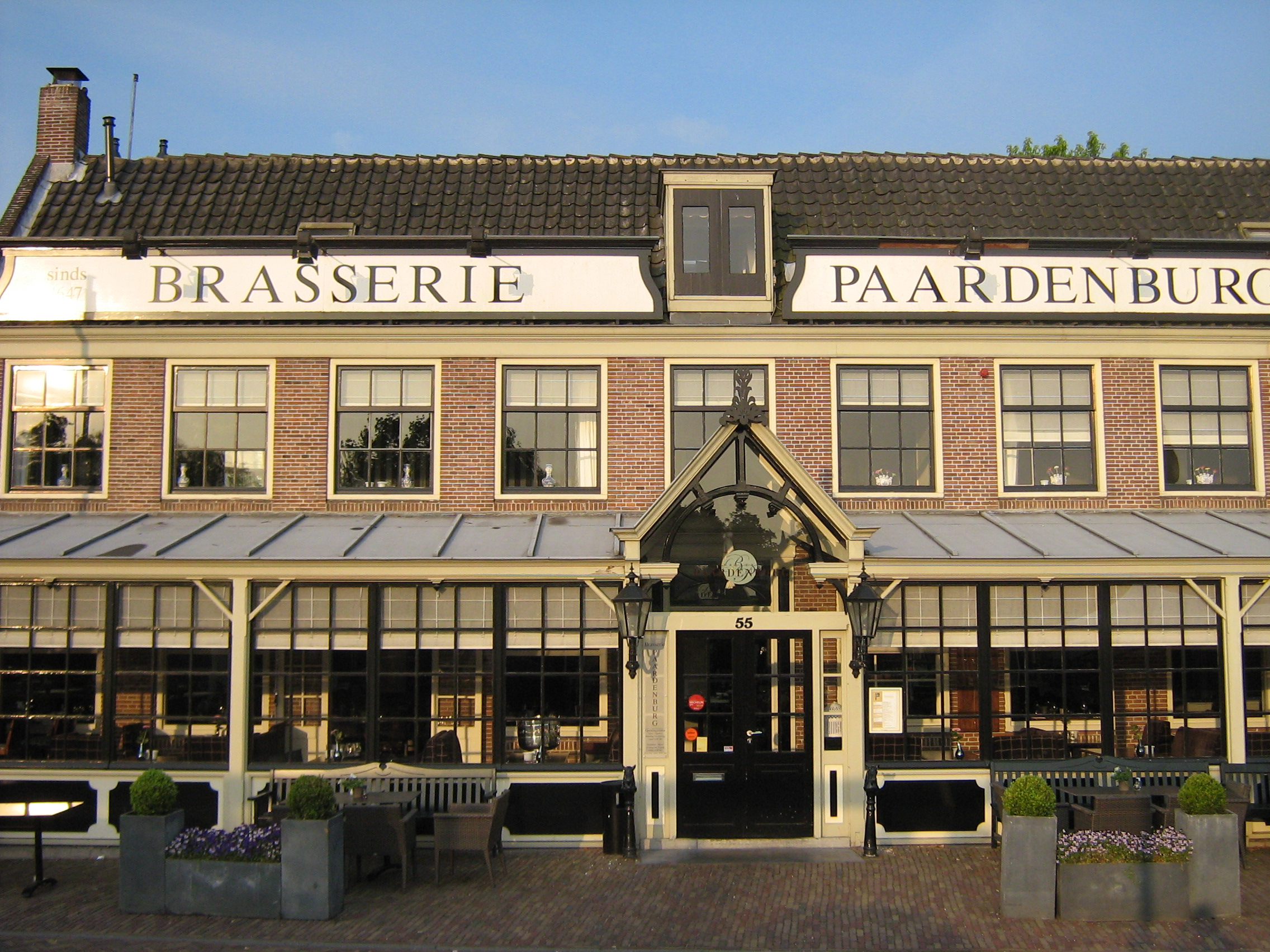 Old building at 55 Amstelzijde, Amstelveen, the Netherlands. This is a national monument registered as object 8139. Photograph made on the morning of June 6 2010 by the uploader, who has donated it to the public domain. At the time of the photo, this housed a brasserie called "Paardenburg".